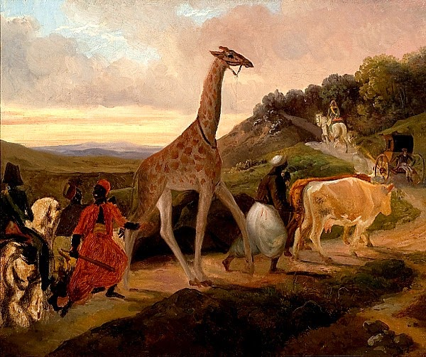 Painting of Giraffe Crossing by depicting.